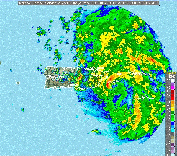 Last image of Irene approaching Puerto Rico from NWS Composite radar before electricity went out